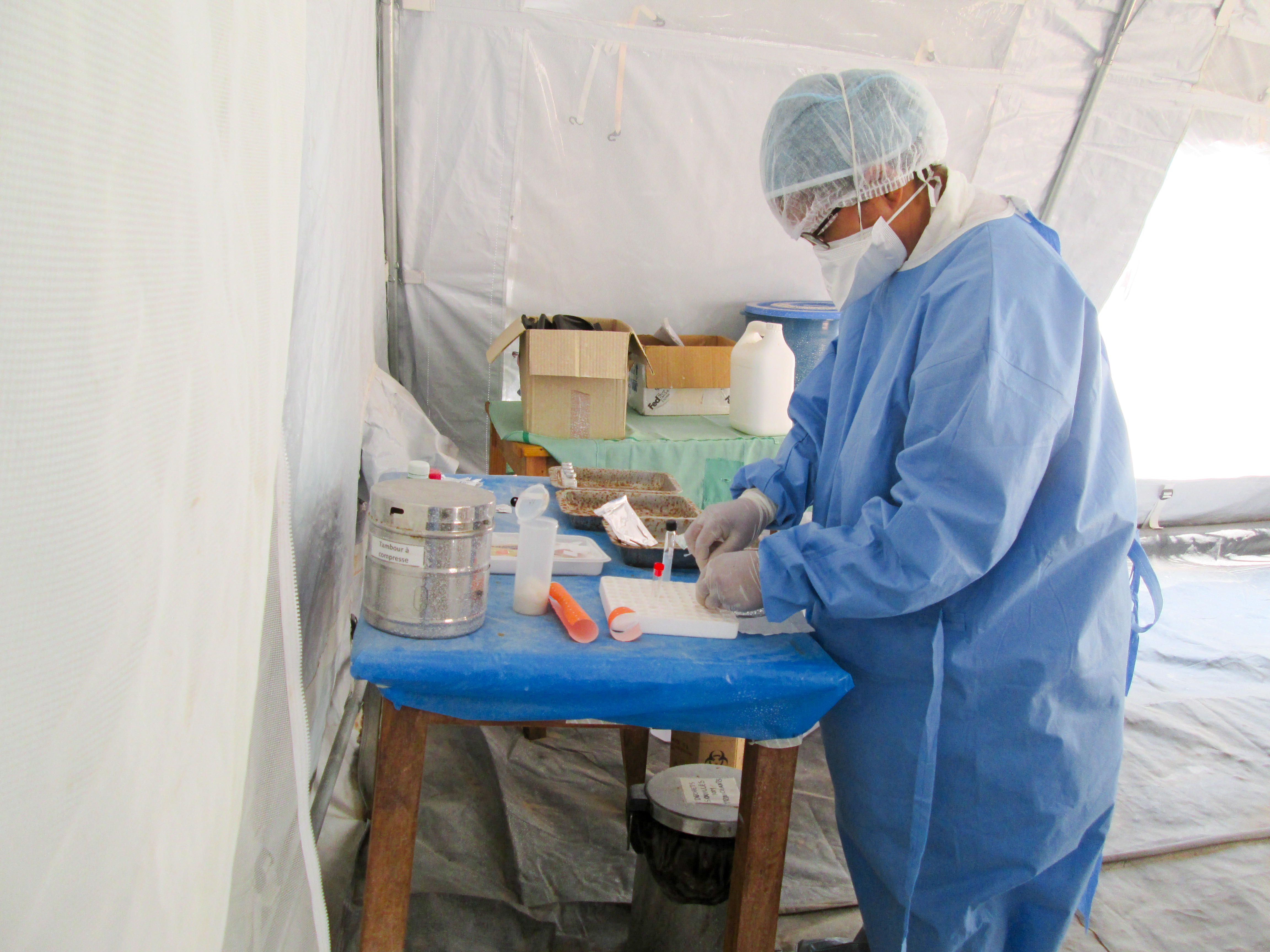 Medical staff analysing the results of a rapid diagnostic test for a patient with lung plague This is an image of "African people at work" from Madagascar